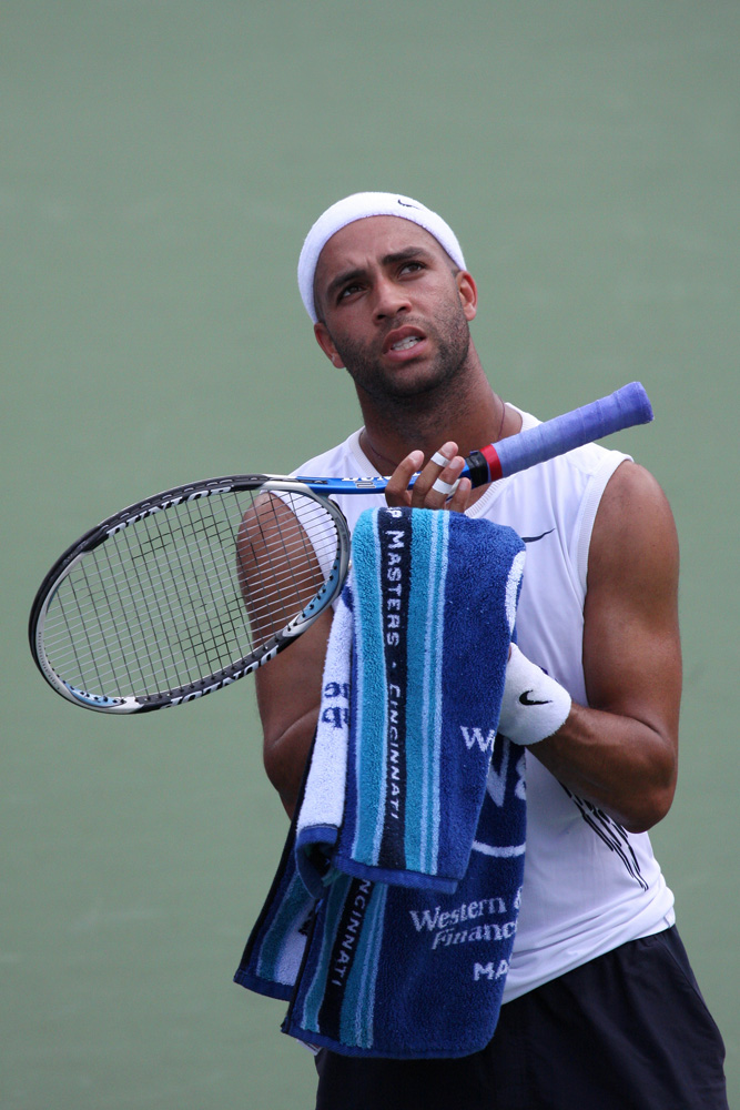 Loss to Ernests Gulbis 2008 Western & Southern Financial Group Masters Mason, Ohio